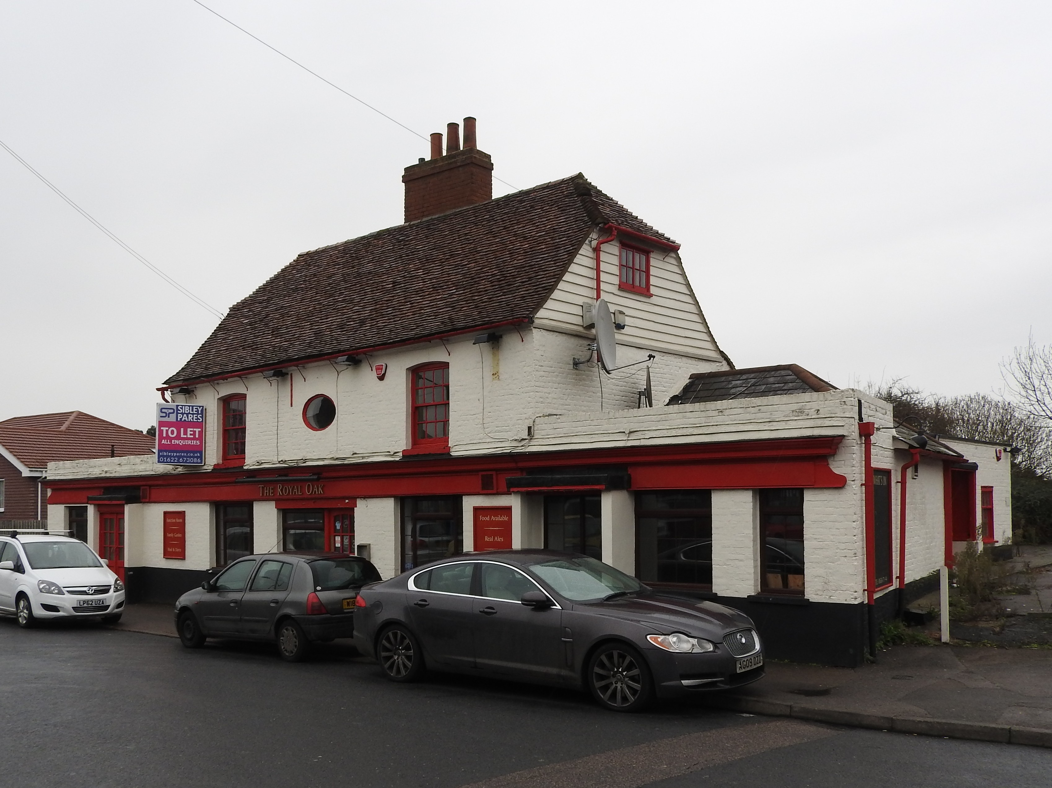 Royal Oak, Frindsbury on Cooling Road waiting for a new tenant.